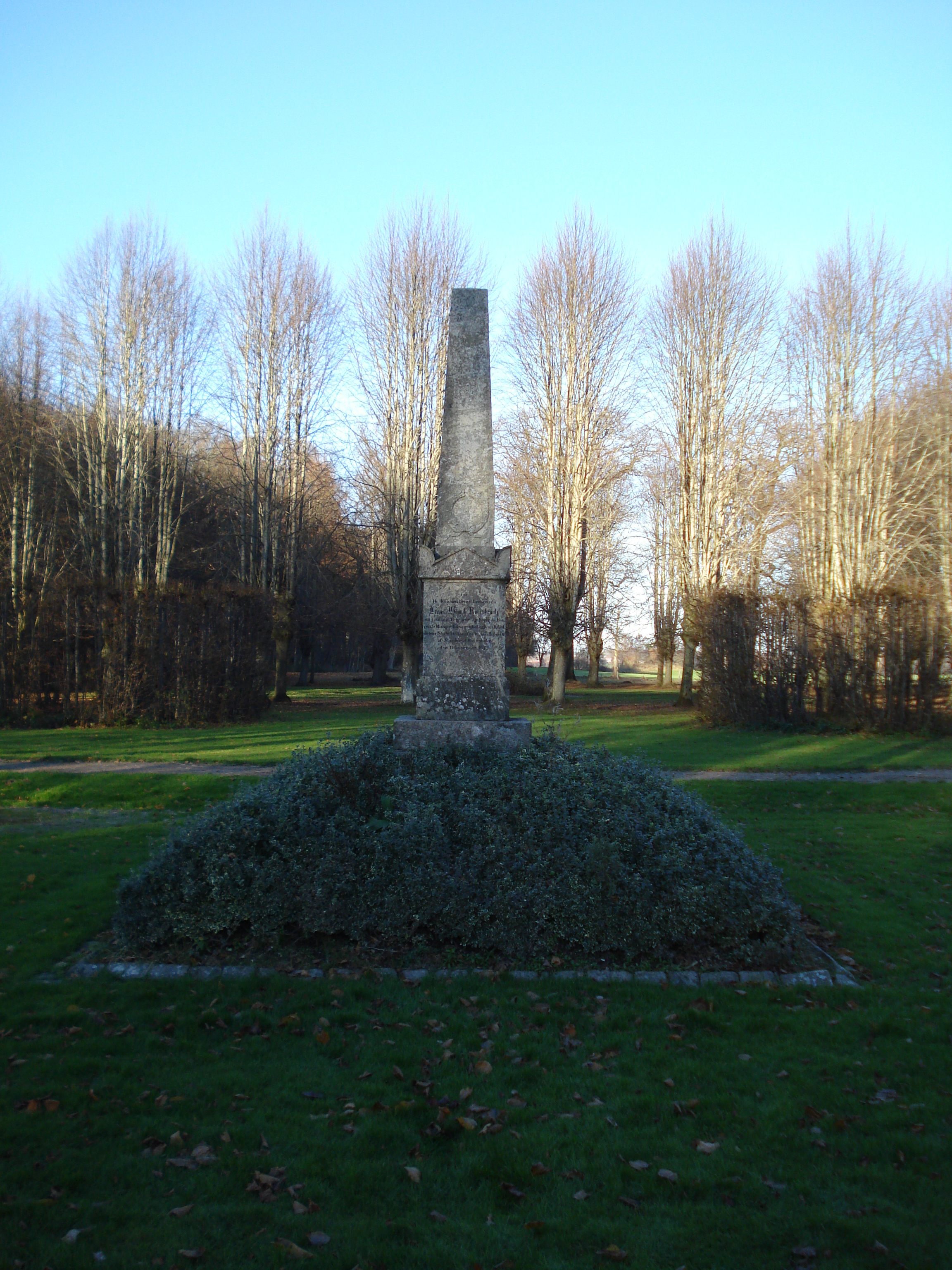 Obelisk in memory of Baron Hans Henrik Rosenkrantz (1806-73). Erected in the park at Rosenholm Castle.